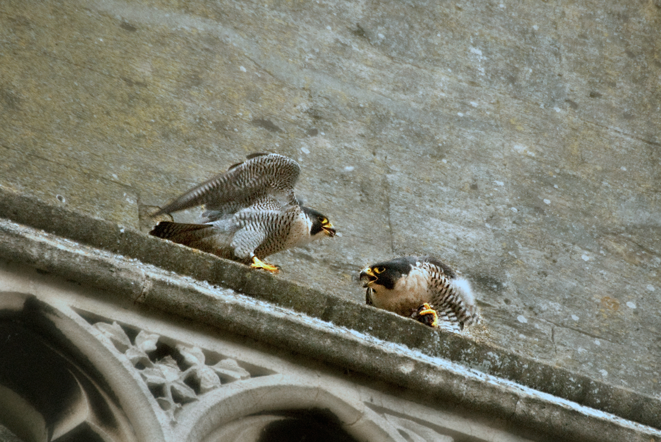 Peregrine Falcon Falco peregrinus pair, St. John's Church, Bath, Somerset, England